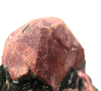 Eudialyte Locality: Putelichorr, Khibiny Massif, Kola Peninsula, Russia Size: miniature, 3.8 x 3.6 x 3.3 cm Eudialyte From the world famous alkali intrusion at the Khibiny Massif on the Kola Peninsula, a eudialite crystal sits perched on its own massive matrix. It is 2 cm across, exhibiting magenta color and a matte luster. This relatively rare species is rare in such an equant crystal, well-exposed. Although not the biggest I have seen (they come bigger form Greenland), this IS one of the biggest and best from Russian and exhibits a morphology strikingly more sharp than most from Greenland as well.